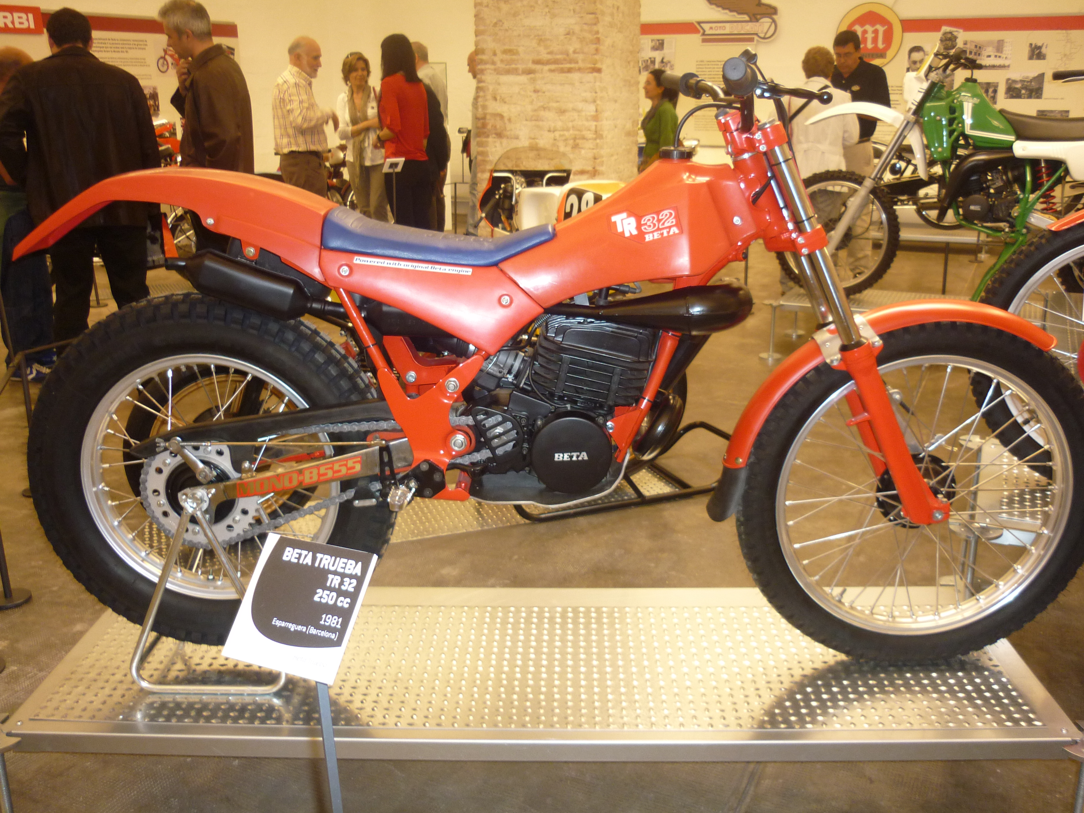 Beta TR-32 240cc 1981, developed by Pere Ollé in collaboration with "Beta Trueba" in Esparreguera (Catalonia).Museu de la Moto de Barcelona (Catalonia).